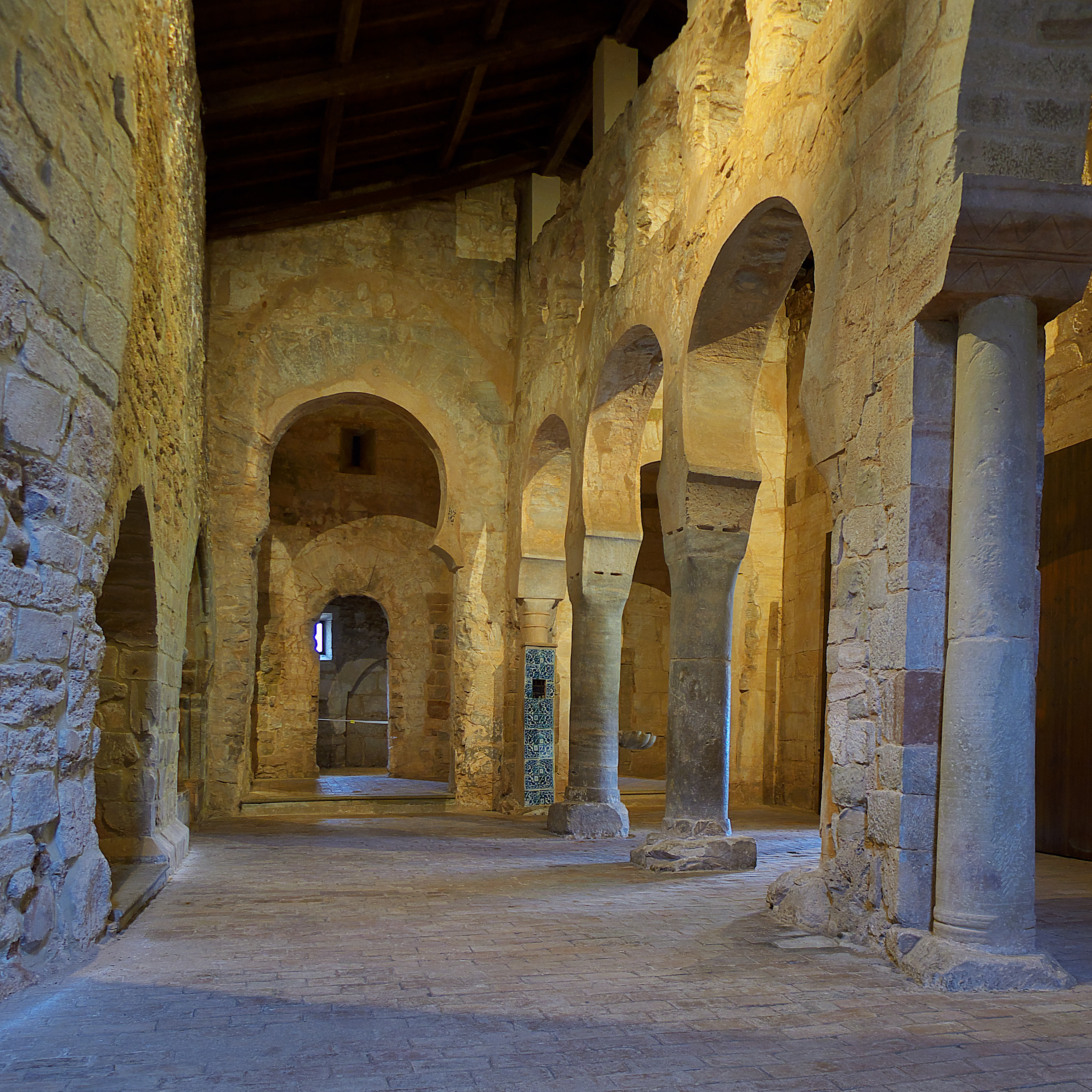 Naves de la iglesia, principalmente la del Evangelio, en su mayor parte de construcción mozárabe (s. X)